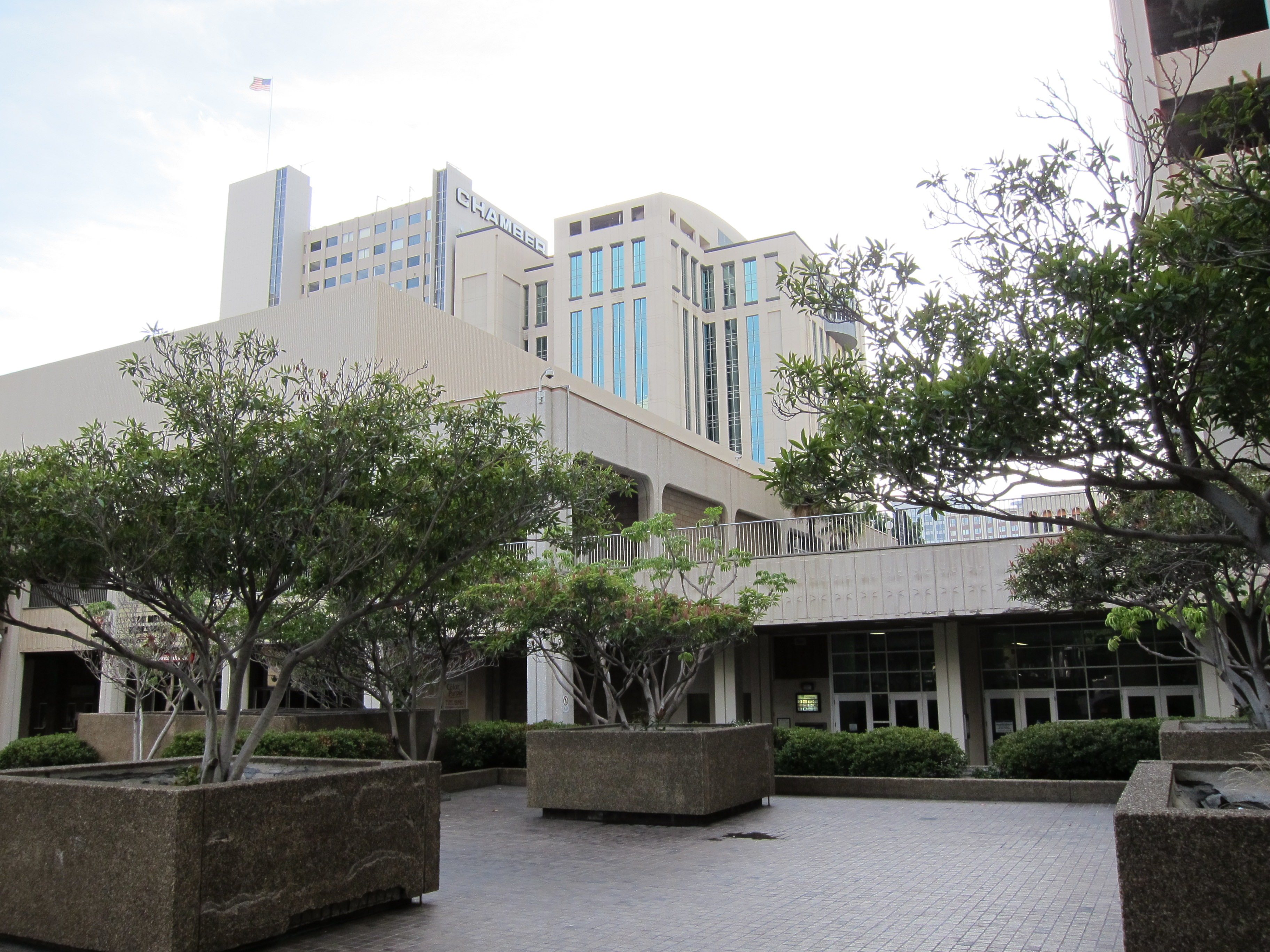 View from inside Civic Center central square in downtown San Diego, California